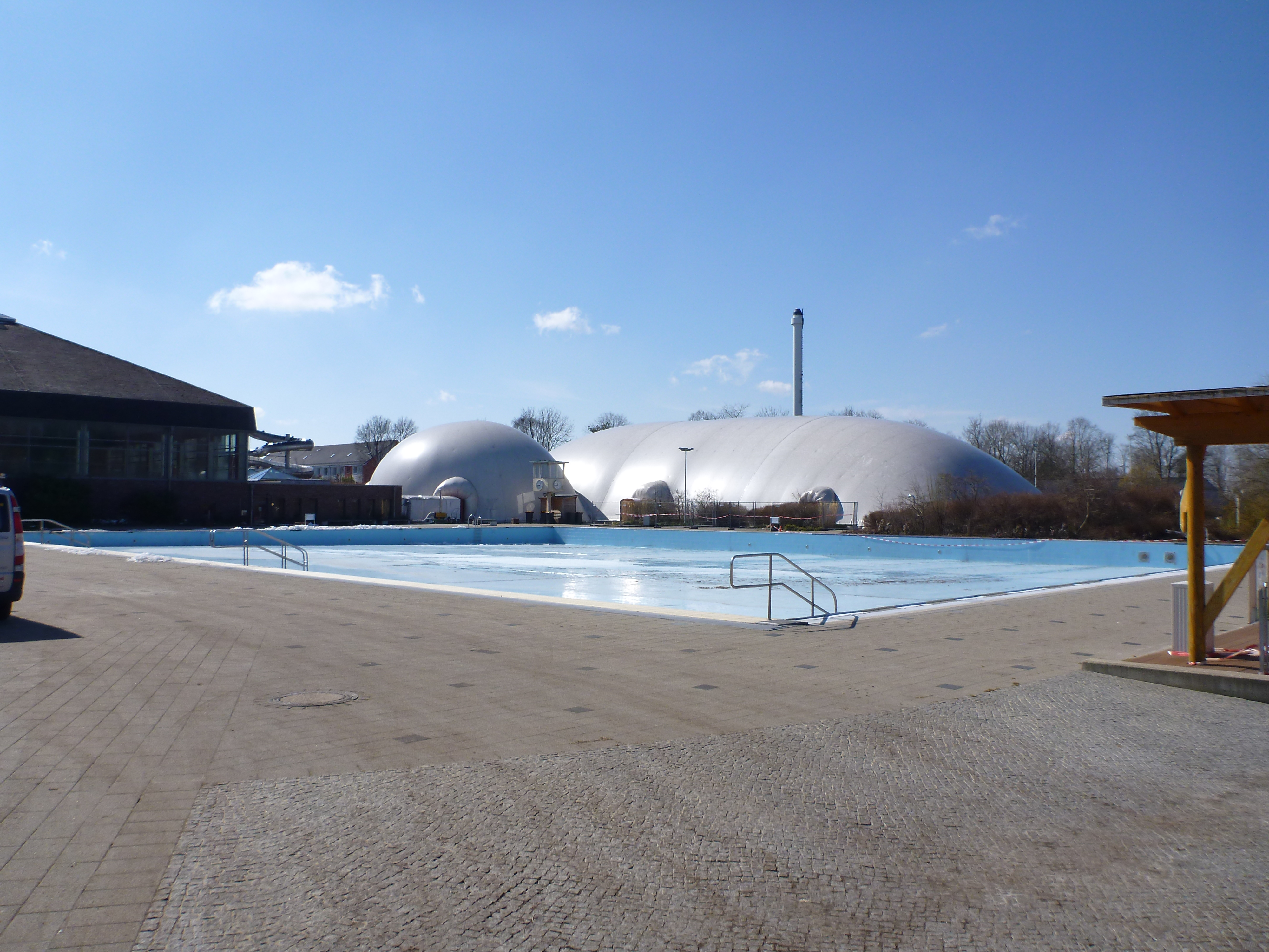 Outdoor swimming pool "Bad am Stadtwald", with the air-inflated tent (airhouse) over the lage outdoor pool. Operated by Stadtwerke Neumünster (SWN)